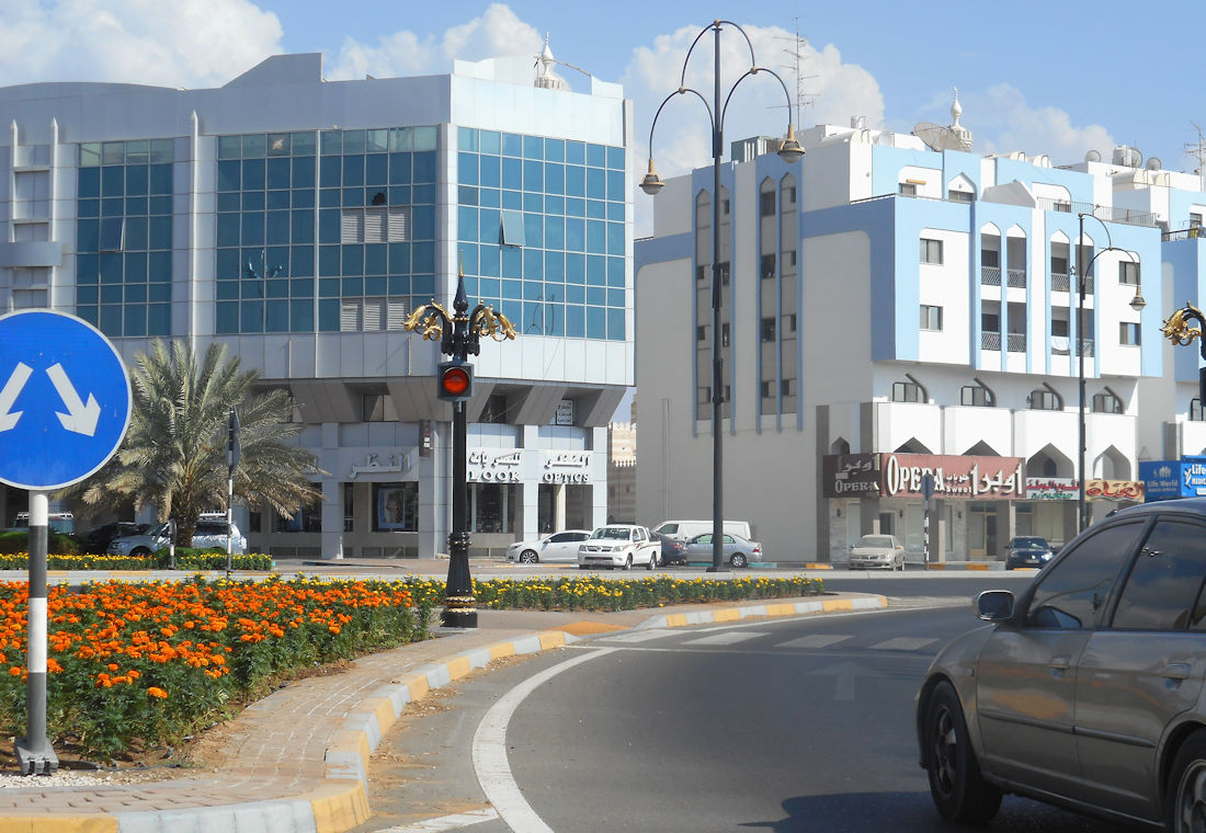 A street in Al Ain's city center